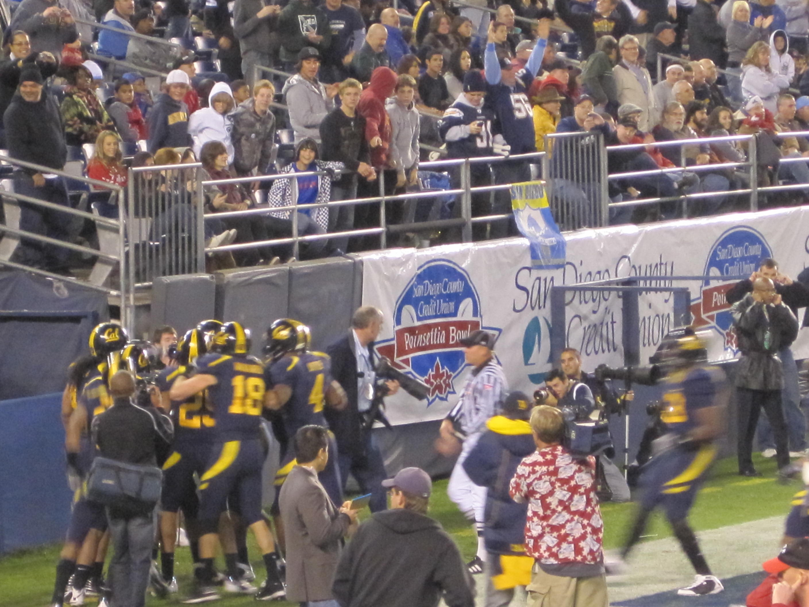 California Golden Bears linebacker Eddie Young scores a touchdown after intercepting a pass by Utah Utes quarterback Jordan Wynn at the 2009 Poinsettia Bowl. The Utes won 37-27.